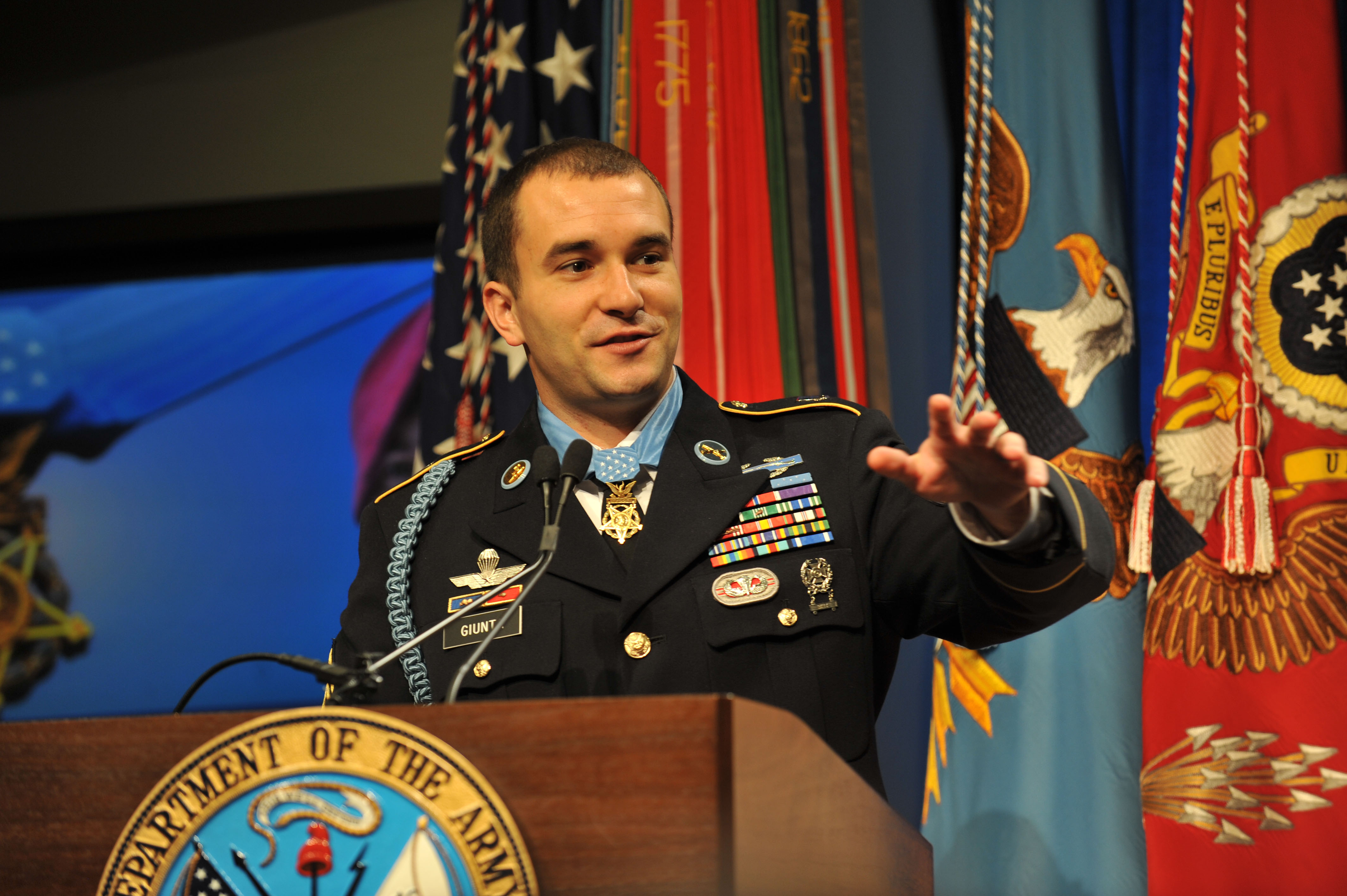 Staff Sergeant Salvatore A. Giunta addresses the audience during the Medal of Honor Hall of Heroes Induction Ceremony at the Pentagon on November 17, 2010. U.S. Army Photo by Mr. Leroy Council